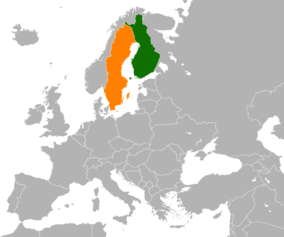 Map of the world illustrating Finland in green and Sweden in orange. Based on Image:BlankMap-World.png, and made by Pudeo.